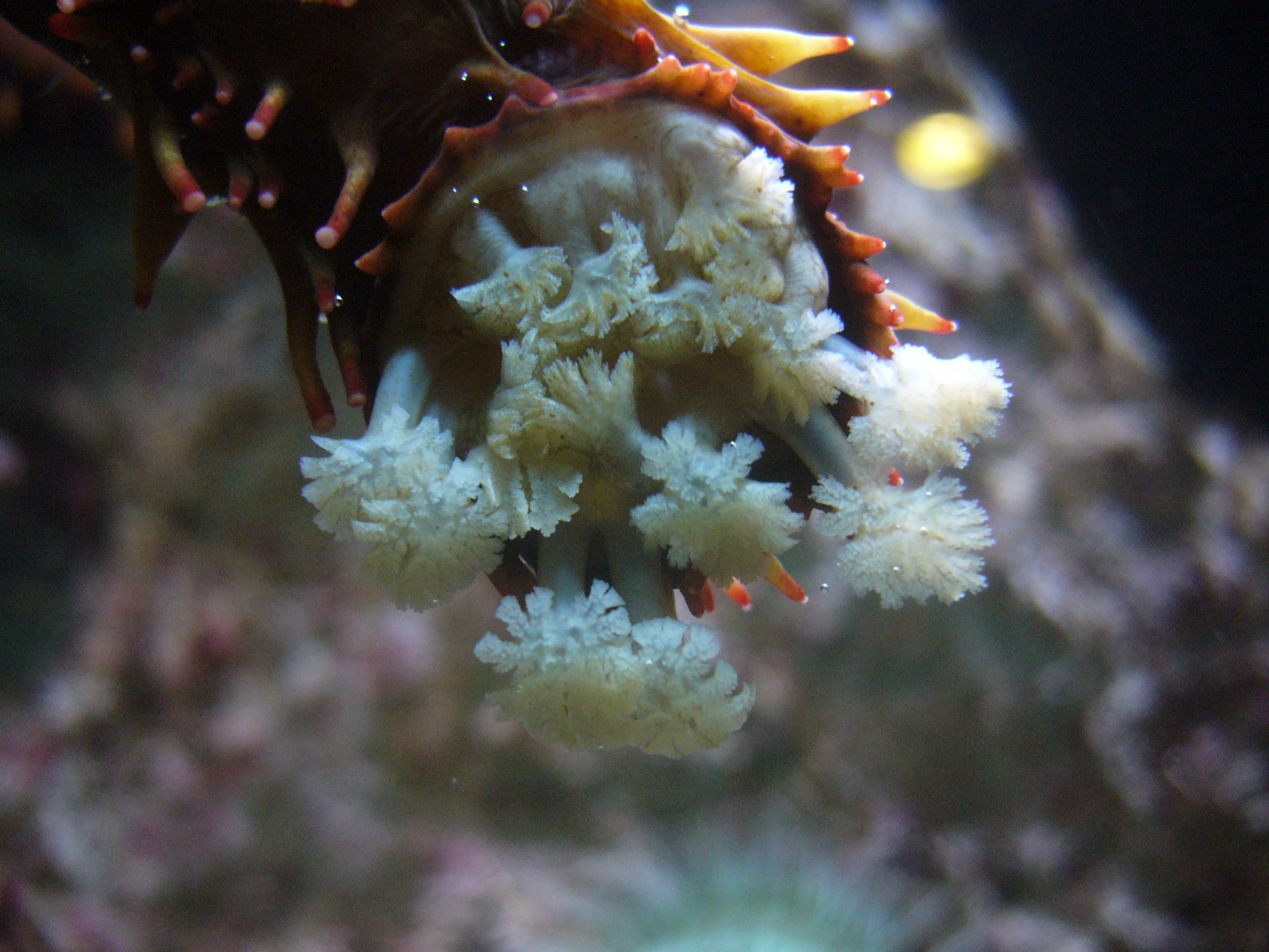 Holothuroidea (sea cucumber) in Sala Humboldt of Aquarium Finisterrae (House of the Fishes), in Corunna, Galicia, Spain.